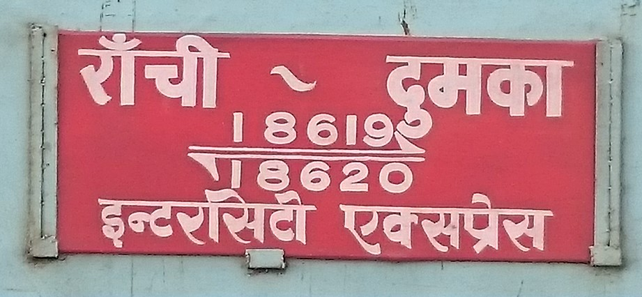 Ranchi Dumka Intercity Exp